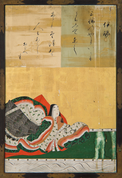 Sanjūrokkasen-gaku (Thirty-six Poetry Immortals framed picture) #4: Ise